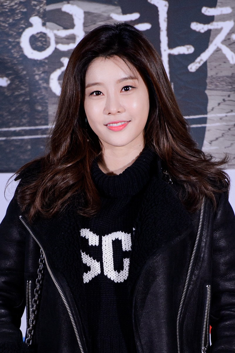 Park So-jin at "Like a French Film" VIP Premiere on January 11, 2016.